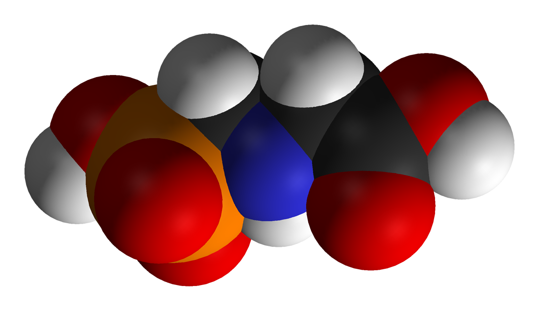 Glyphosate 3D